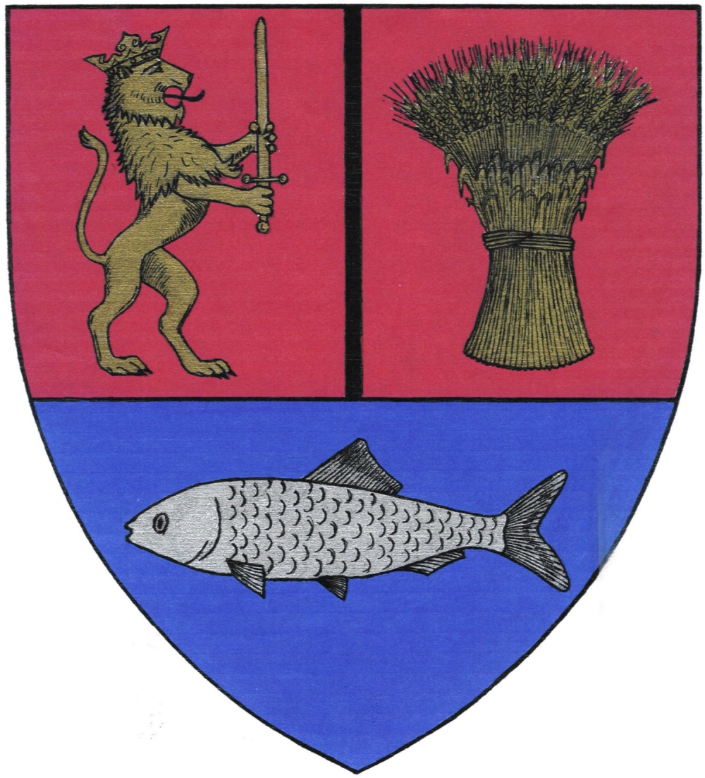 Coat of arms of Dolj County, Romania.